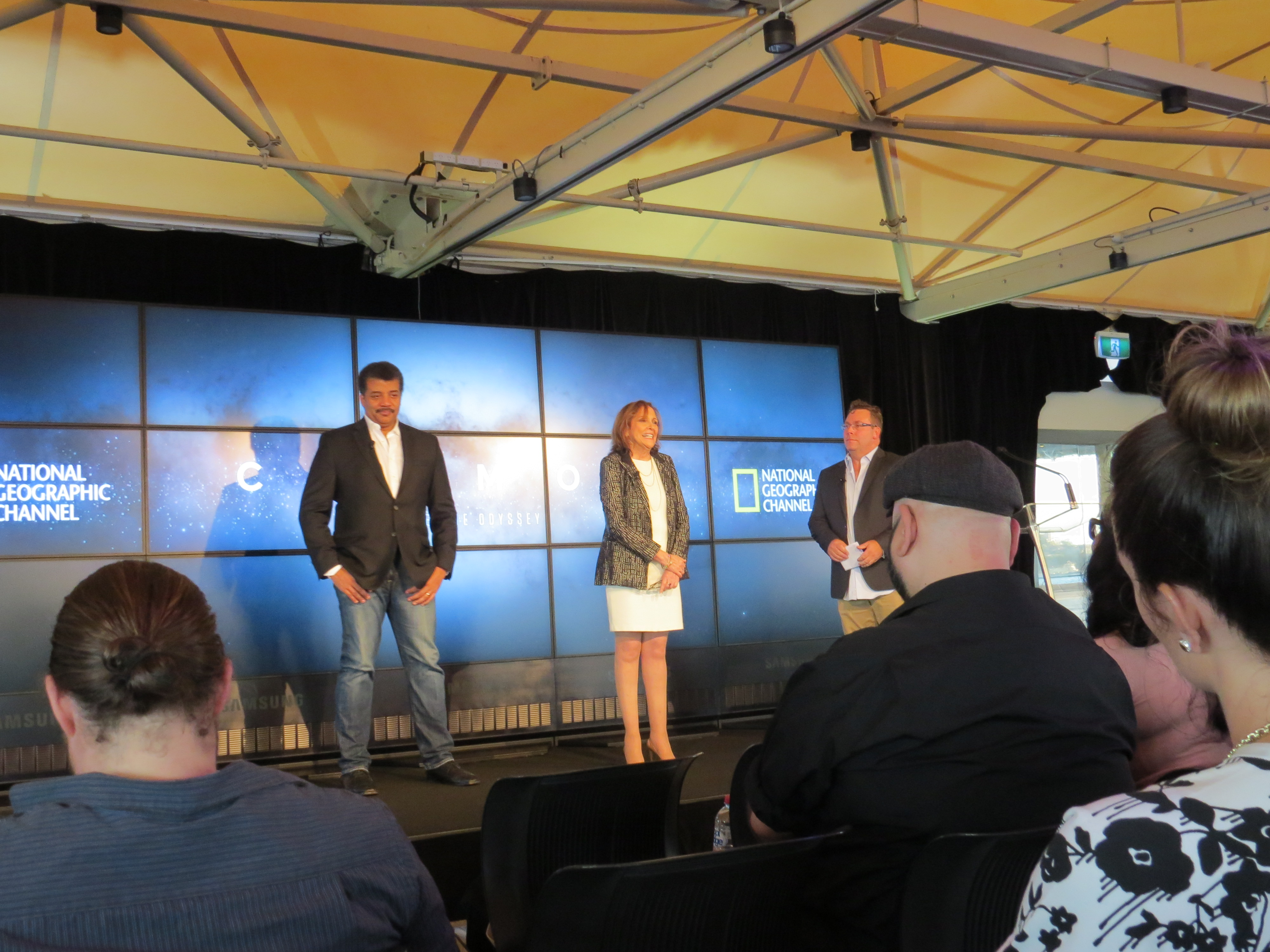 Promoting Cosmos TV series